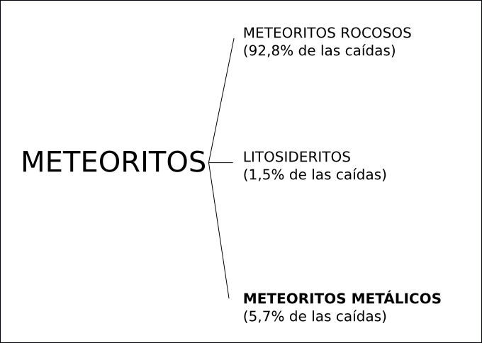 Meteorites classification